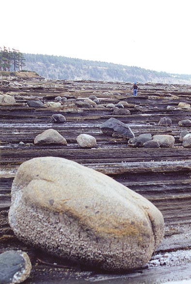 A rocky beach near Dunlop Point on Hornby Island, British Columbia